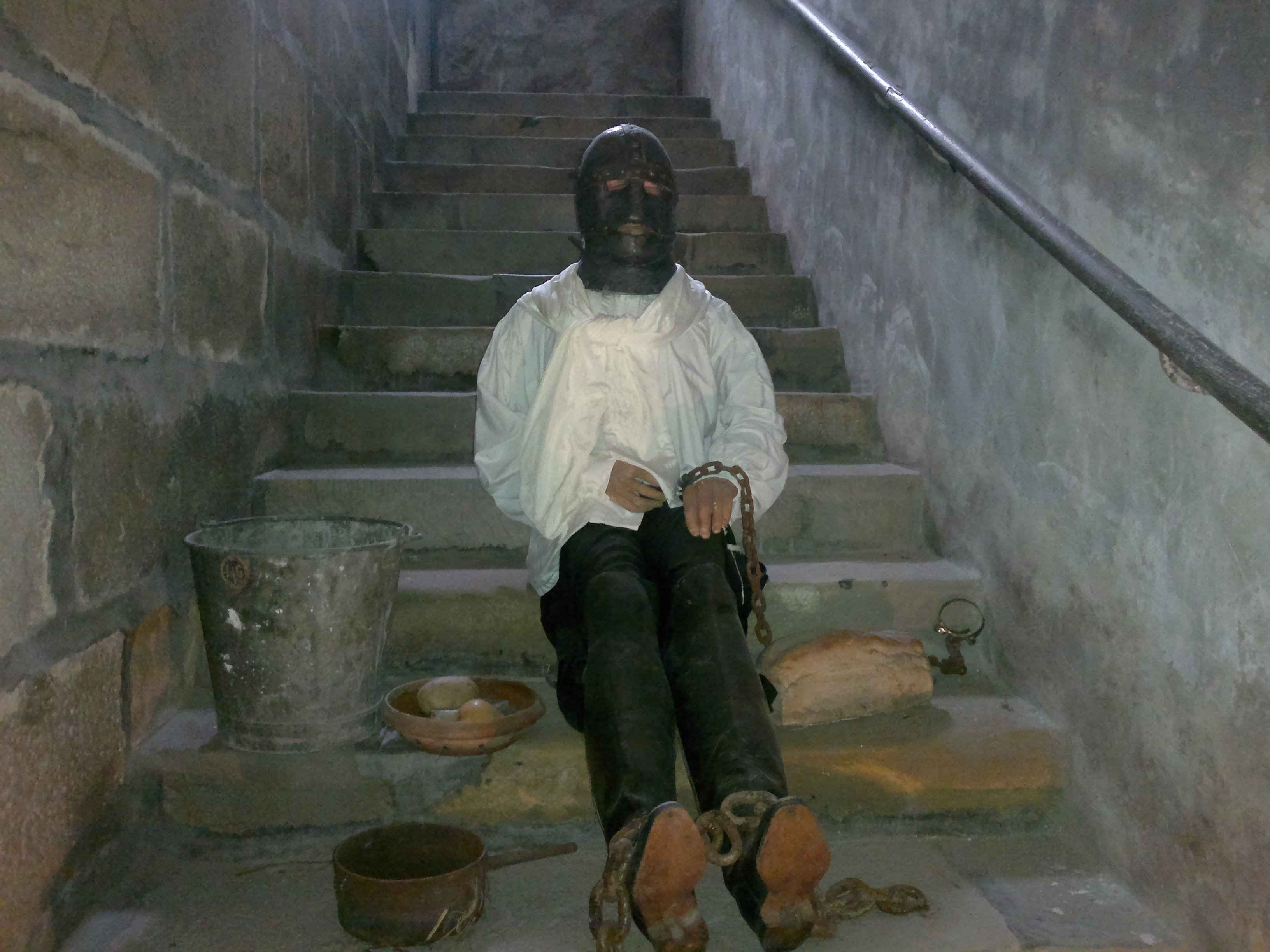 Castle of Vaux-le-Vicomte : cellar. Dummy Man in the Iron Mask, imprisoned in the castle for several years.